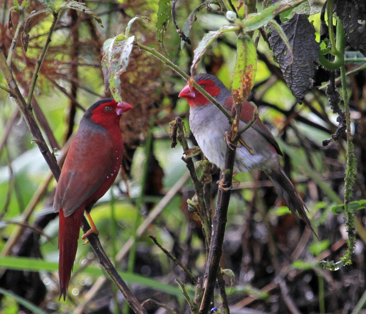 Crimson Finches - Breeding Pair - Fogg Dam - Middle Point, Northern Territory - Australia (male on the left)